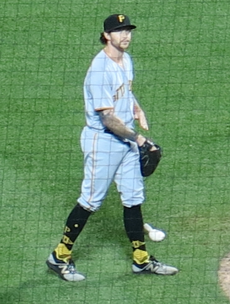 Steven Brault on June 26, 2018